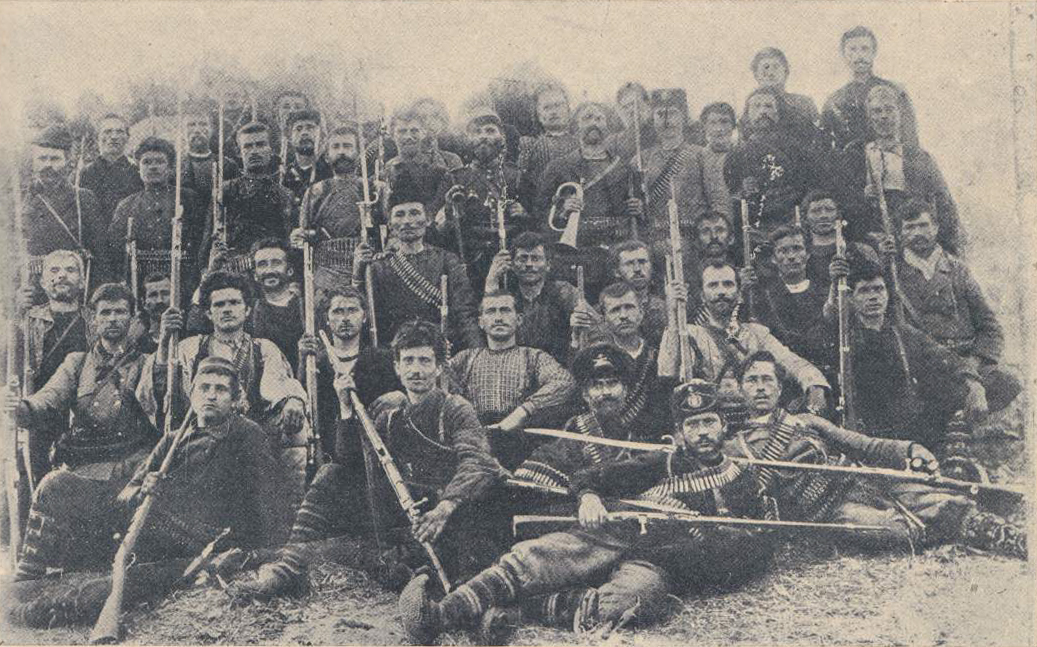 Cheta of IMARO voevoda Nikola Andreev in Kastoria, 1903